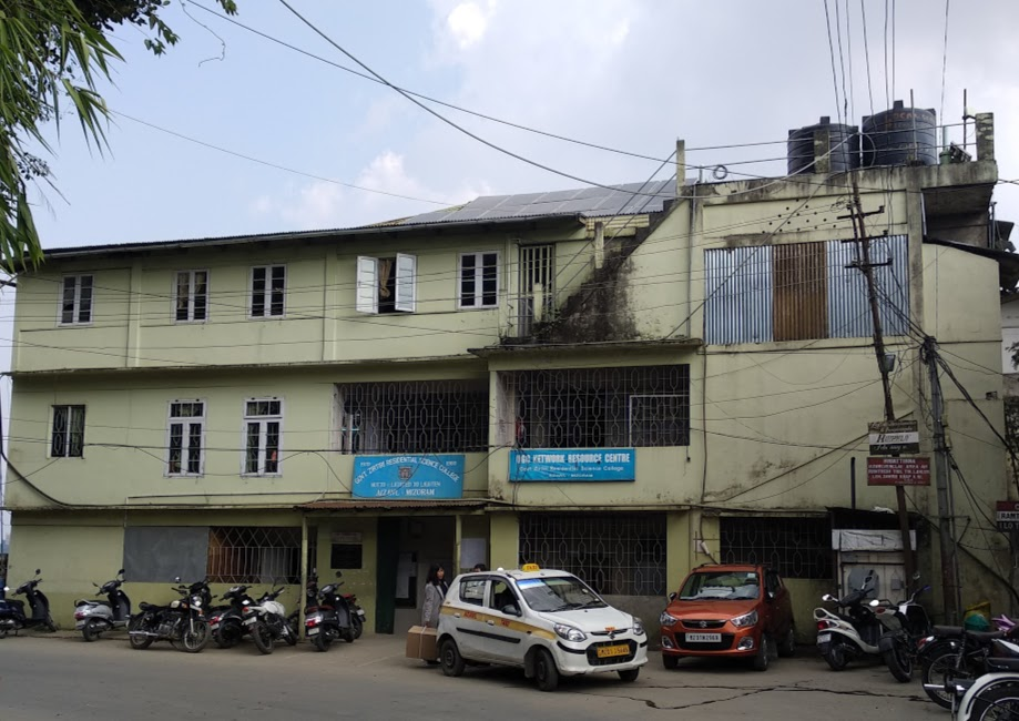 Zirtiri Residential Science College